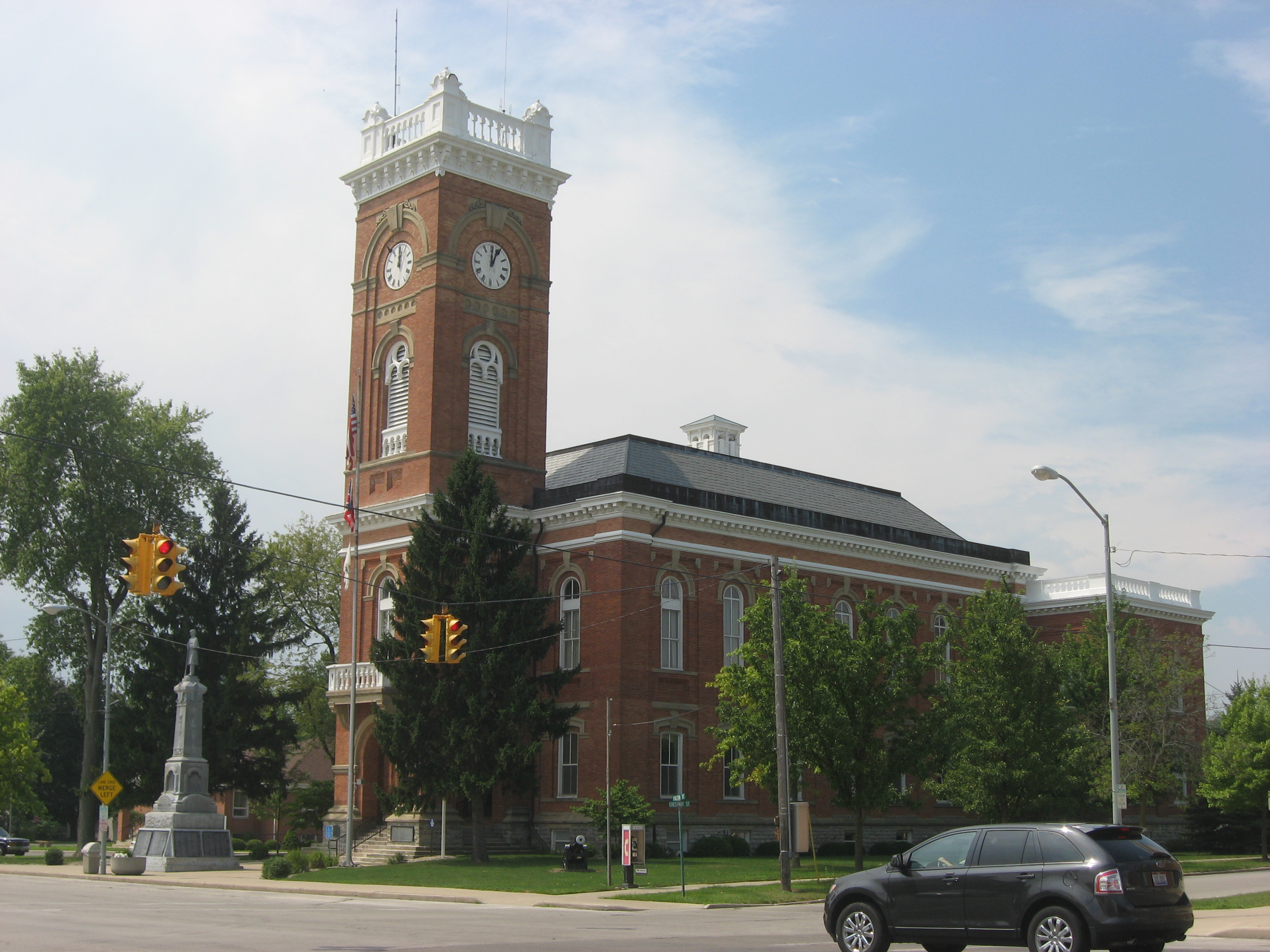 Front and northern side of the Fulton County Courthouse, located on the southwestern corner of the intersection of Fulton and Chestnut Streets in downtown in Wauseon, Ohio, United States. Built in 1870, it is listed on the National Register of Historic Places.